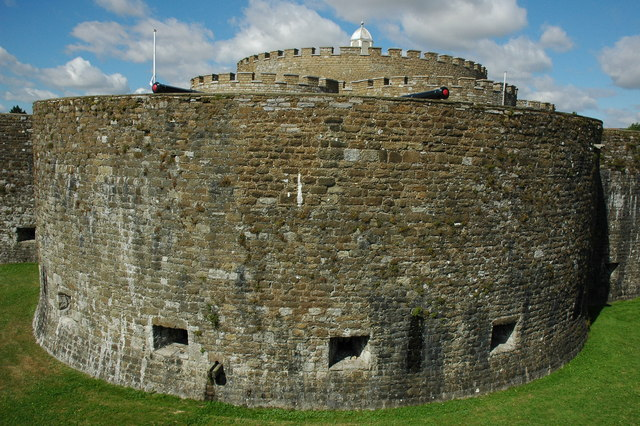 Deal Castle Deal Castle was built during the reign of King Henry VIII, part of a series of castle which included Pendennis in Cornwall, and nearby Walmer. These castle were hastily built between 1539 - 1542 at a time when England under threat of a Catholic invasion. The invasion never took place, however, the castle did see action in 1648 during the English Civil War.